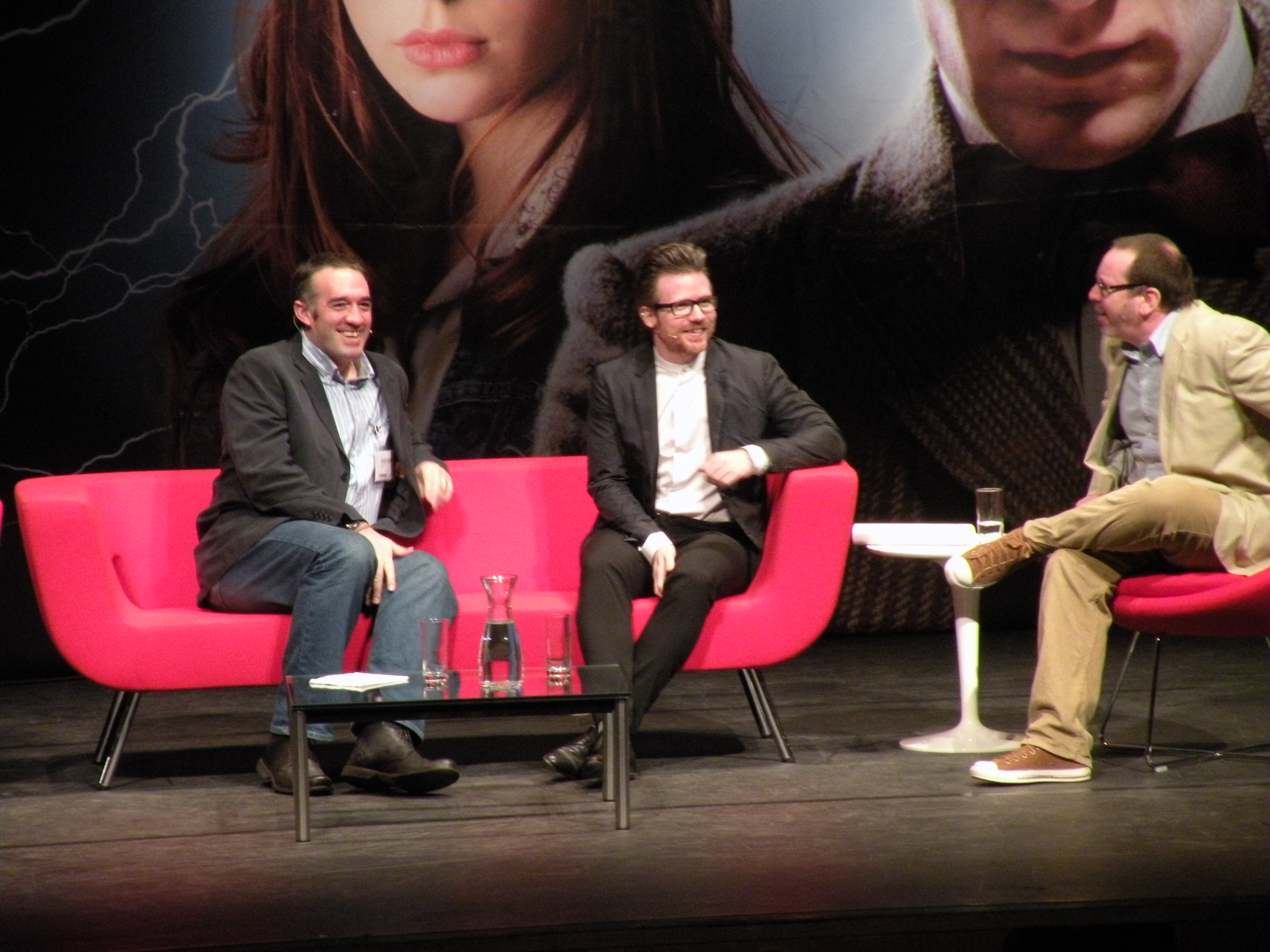 Marcus Wilson, TomMacRae & Gary Russell Doctor Who Experience